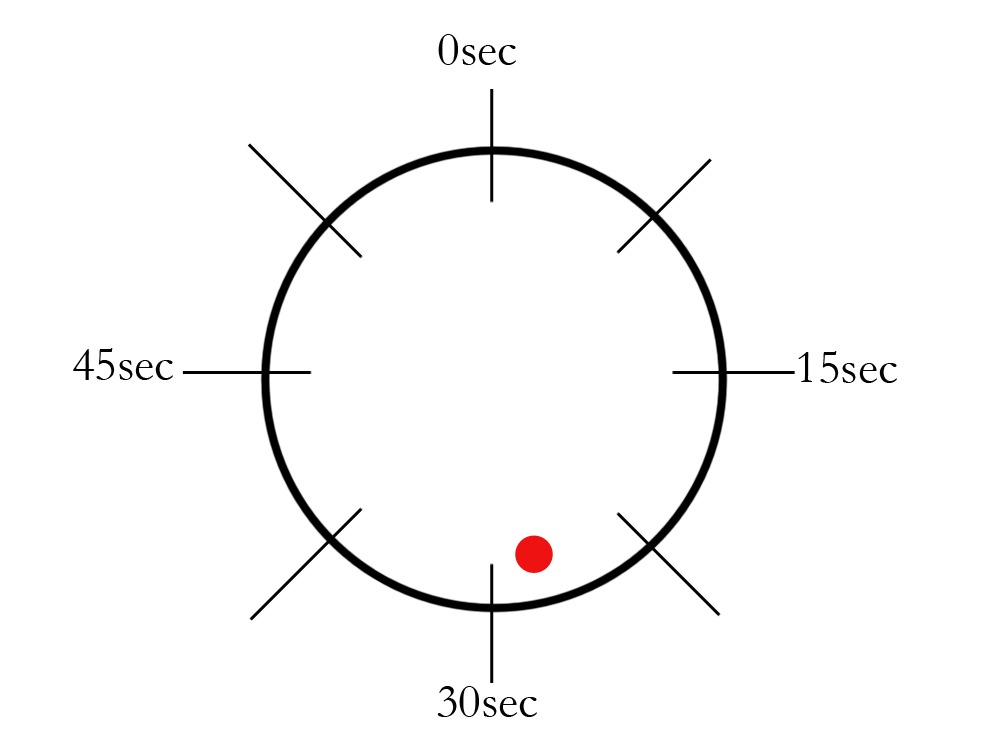 The Libet Clock, first used by researcher Benjamin Libet to measure the timing of the intention to move